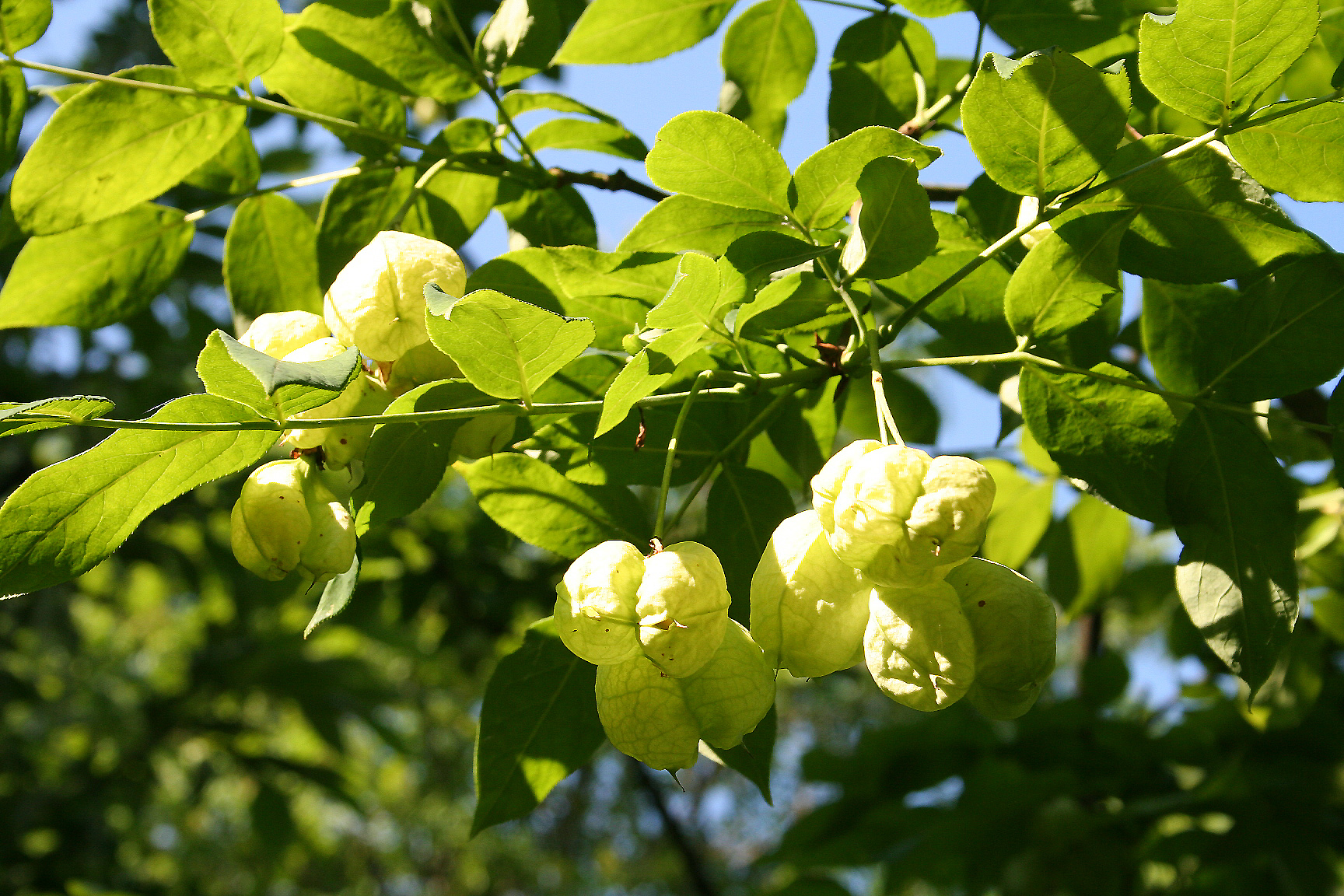 Staphylea pinnata Planting date : 1971 Precise location : Arboretum Robert Lenoir (S46A) - Rendeux (Belgium). Walon: Staphylea pinnata Date do plantis : 1971 Place rècta: Arboretum Robert Lenoir (S46A) - Rindeu (Bèljike).